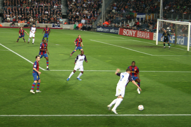 Alan Hutton takes on Barcelona left back Éric Abidal during the match at the Camp Nou.